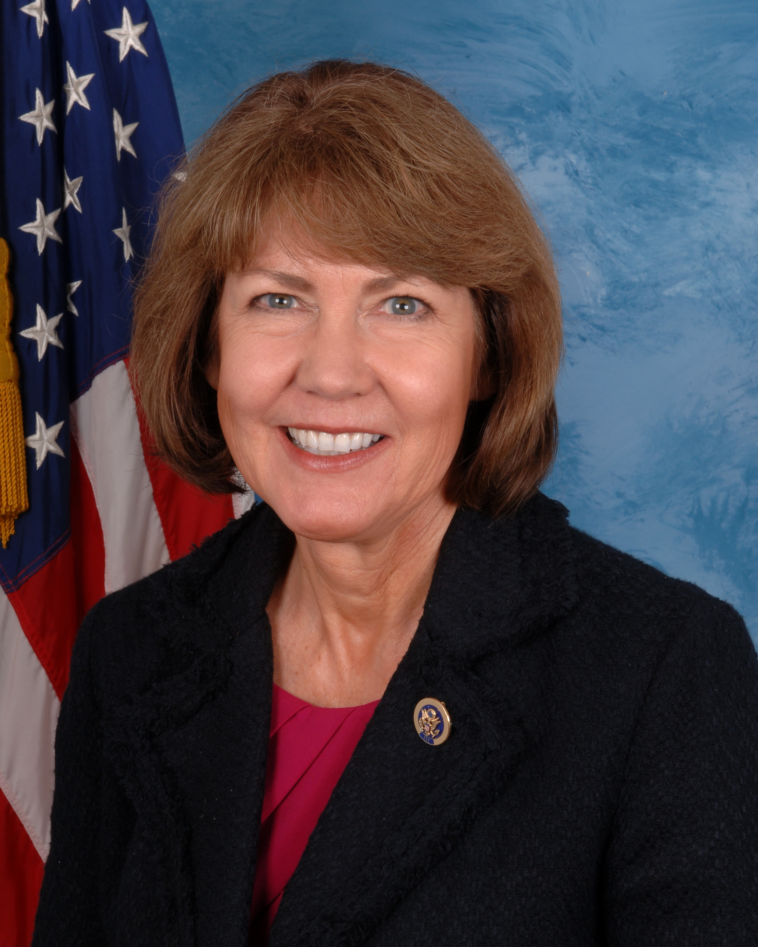 Ann Kirkpatrick, member of the United States House of Representatives.